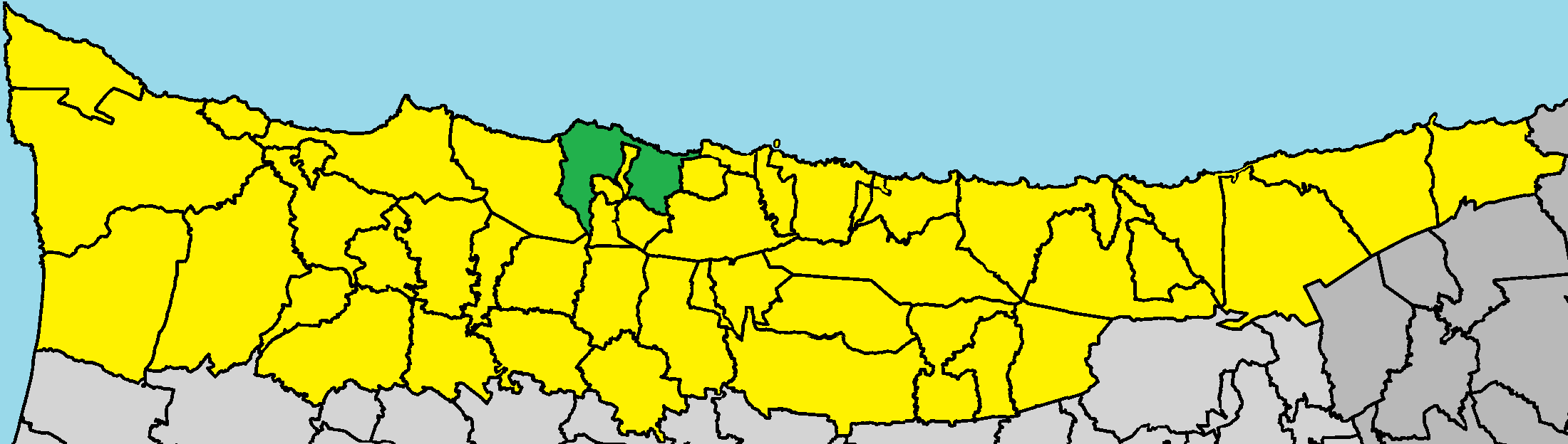 Karavas in Kyrenia District (de jure).